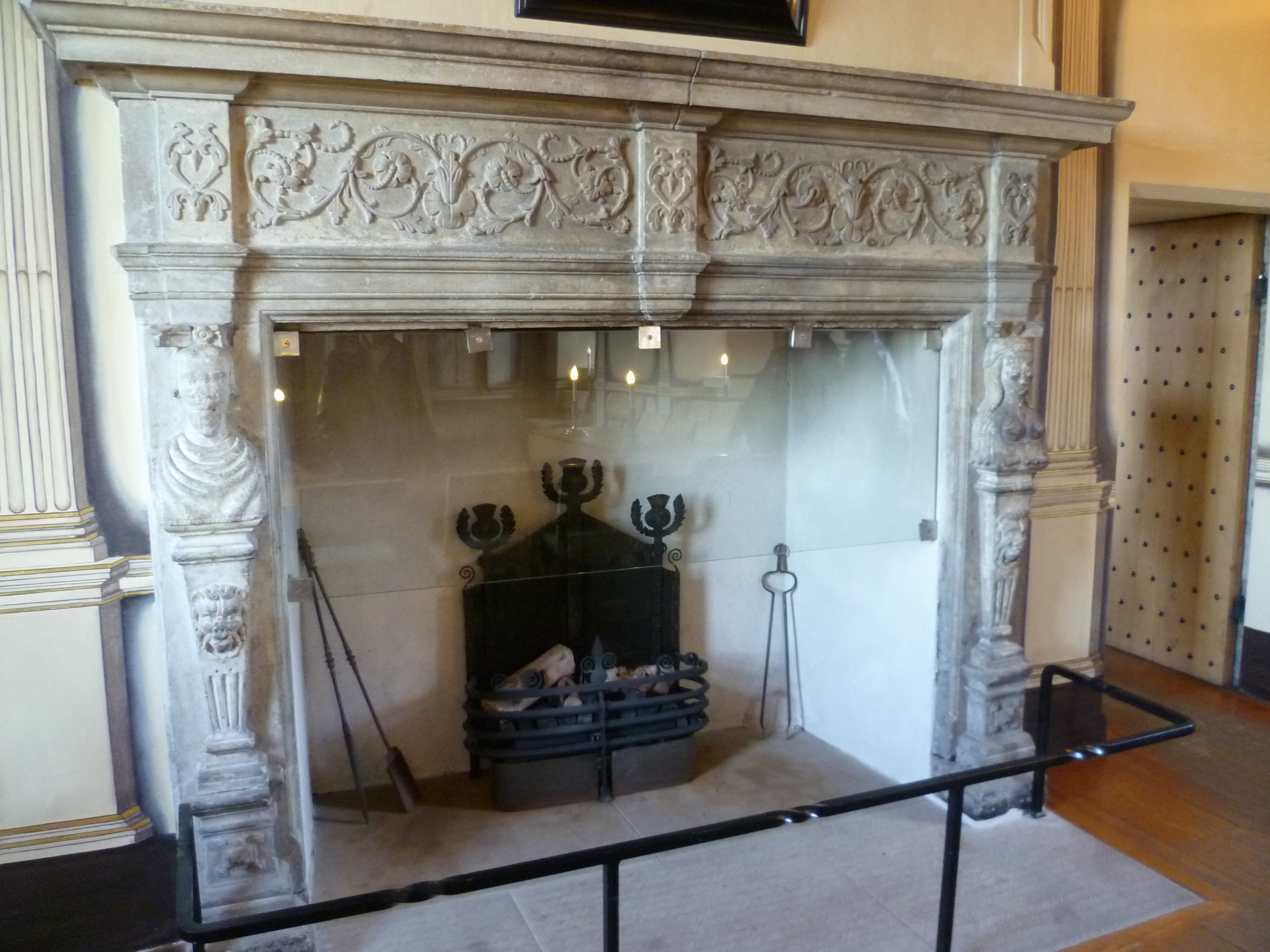 1630s fireplace in the High Dining Room in Argyll's Lodging, Stirling